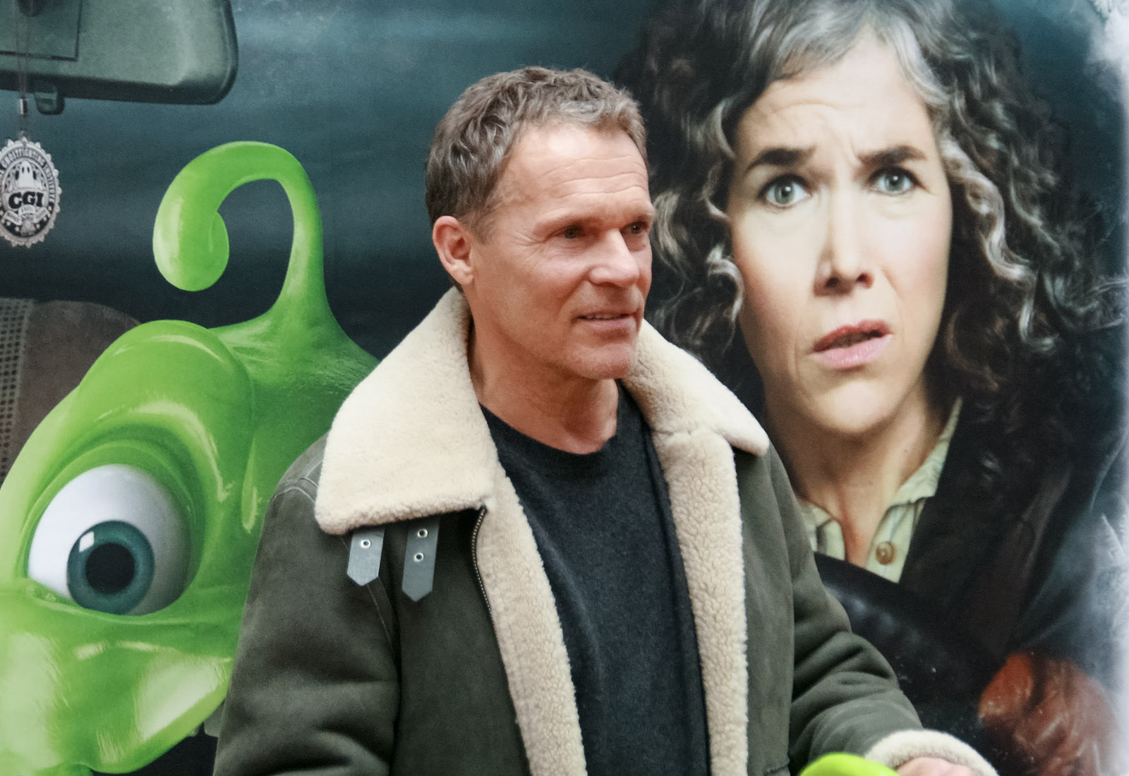 Christian Tramitz at the Austrian premiere of Gespensterjäger – Auf eisiger Spur at Village Cinema Wien Mitte in Vienna, Austria.